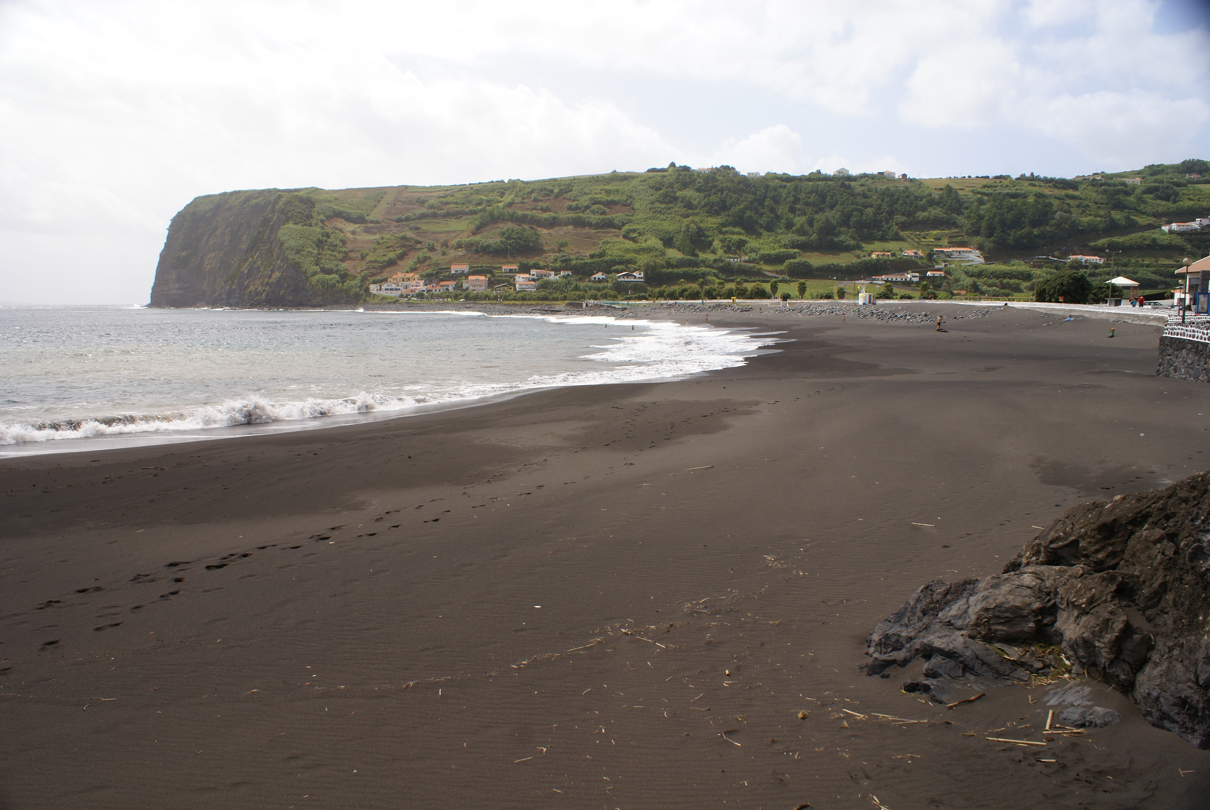 Praia do Almoxarife, areal, Concelho da Horta, ilha do Faial, Açores, Portugal